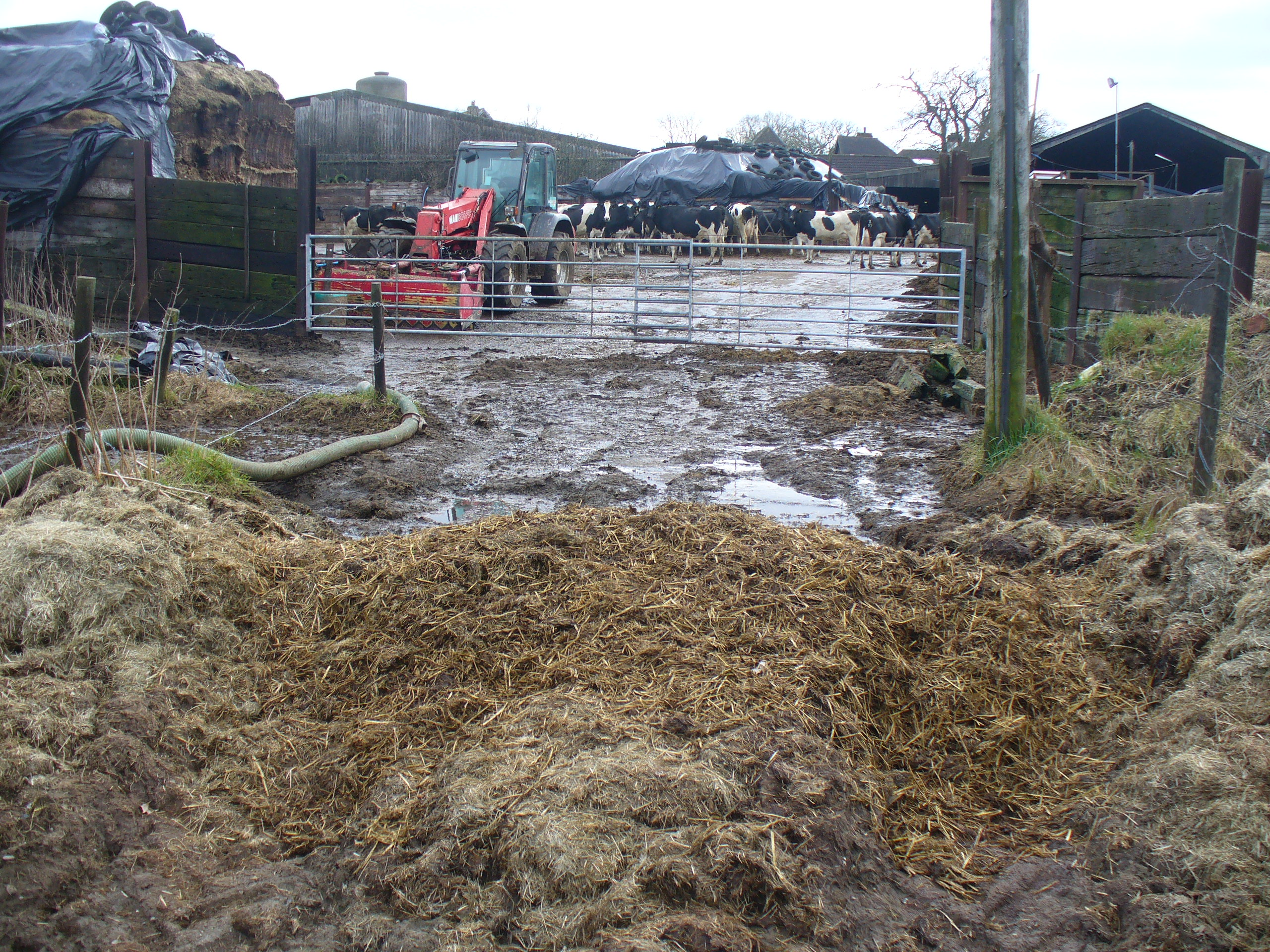 Fresh Country Air, near to Charlwood, Surrey, Great Britain. Manure, mud and beasts on Beggarshouse Lane, Greenings.